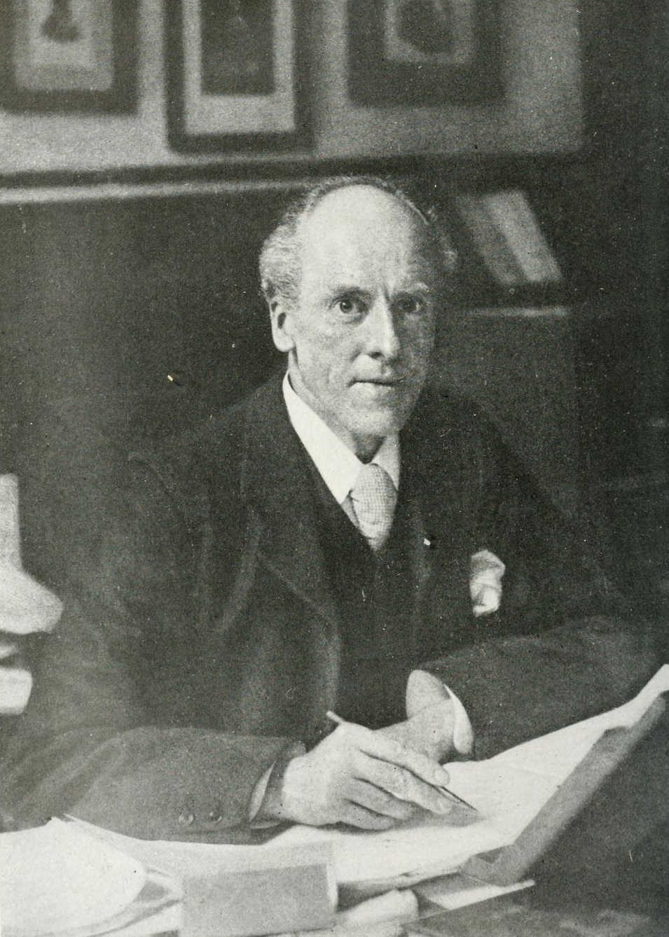 Portrait of Karl Pearson, 1910.